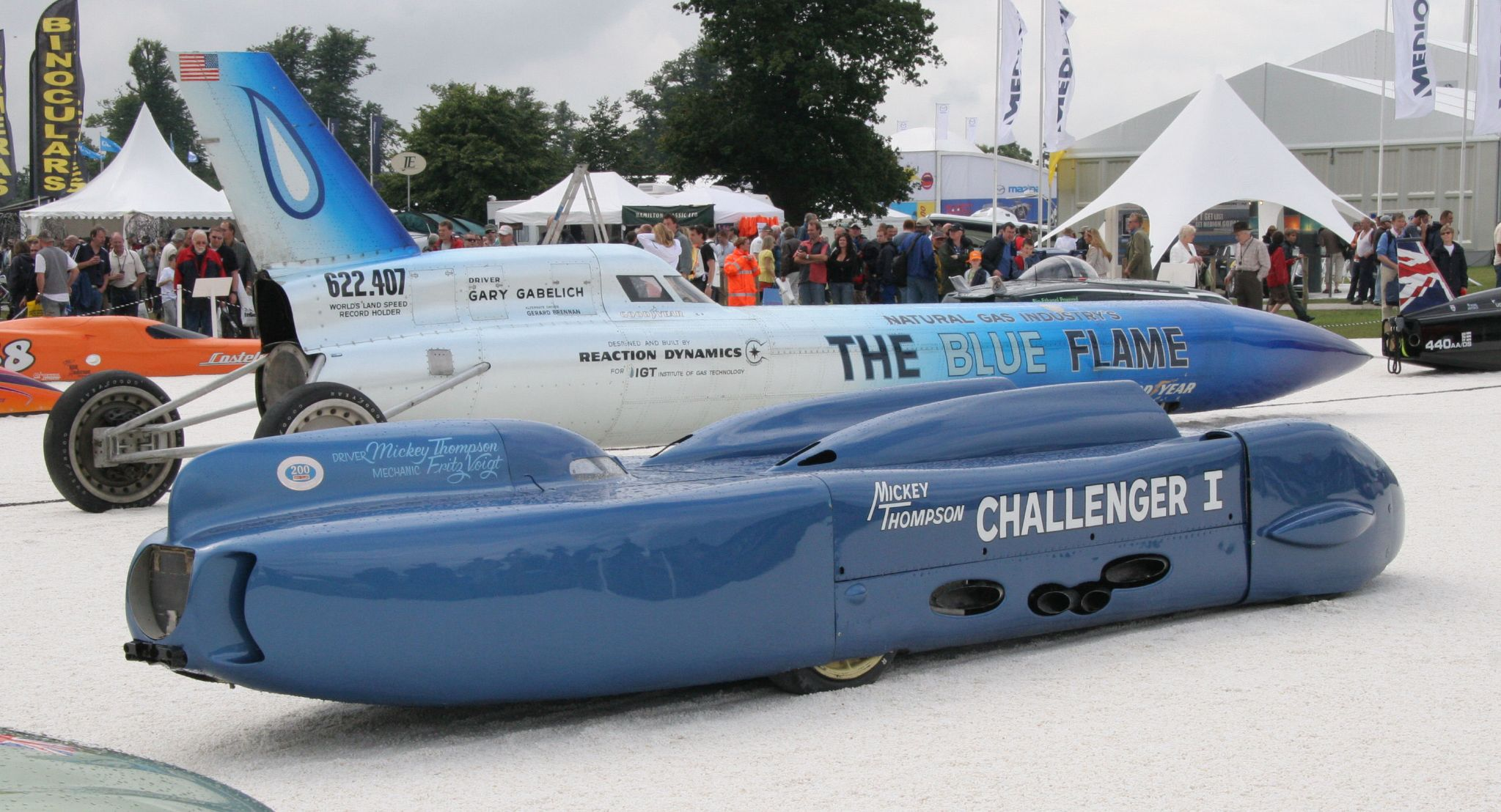 Challenger I and The Blue Flame